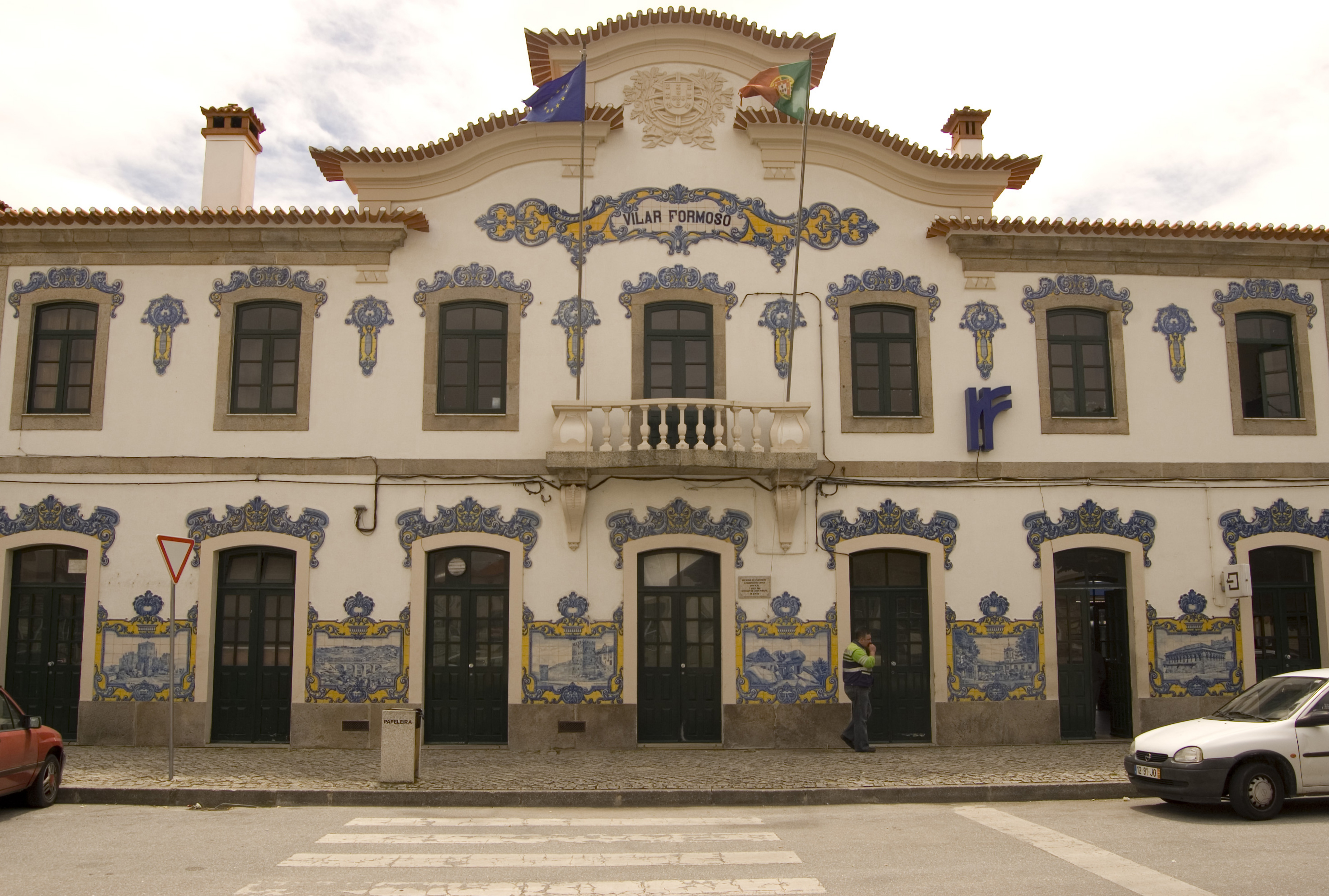 Train station - Vilar Formoso, Portugal